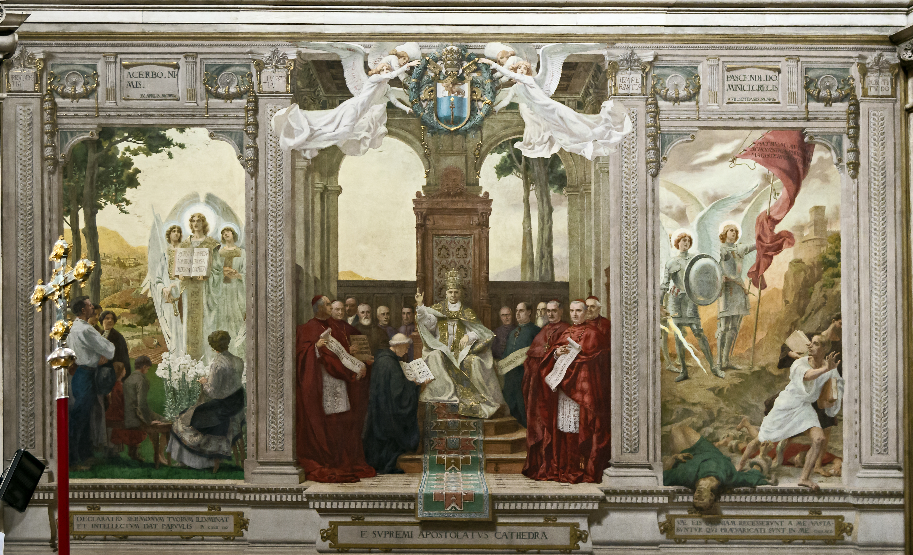 Treviso Cathedral - Left Side of the Choir - The Apotheosis of St. Pius X by Biagio Biagetti.